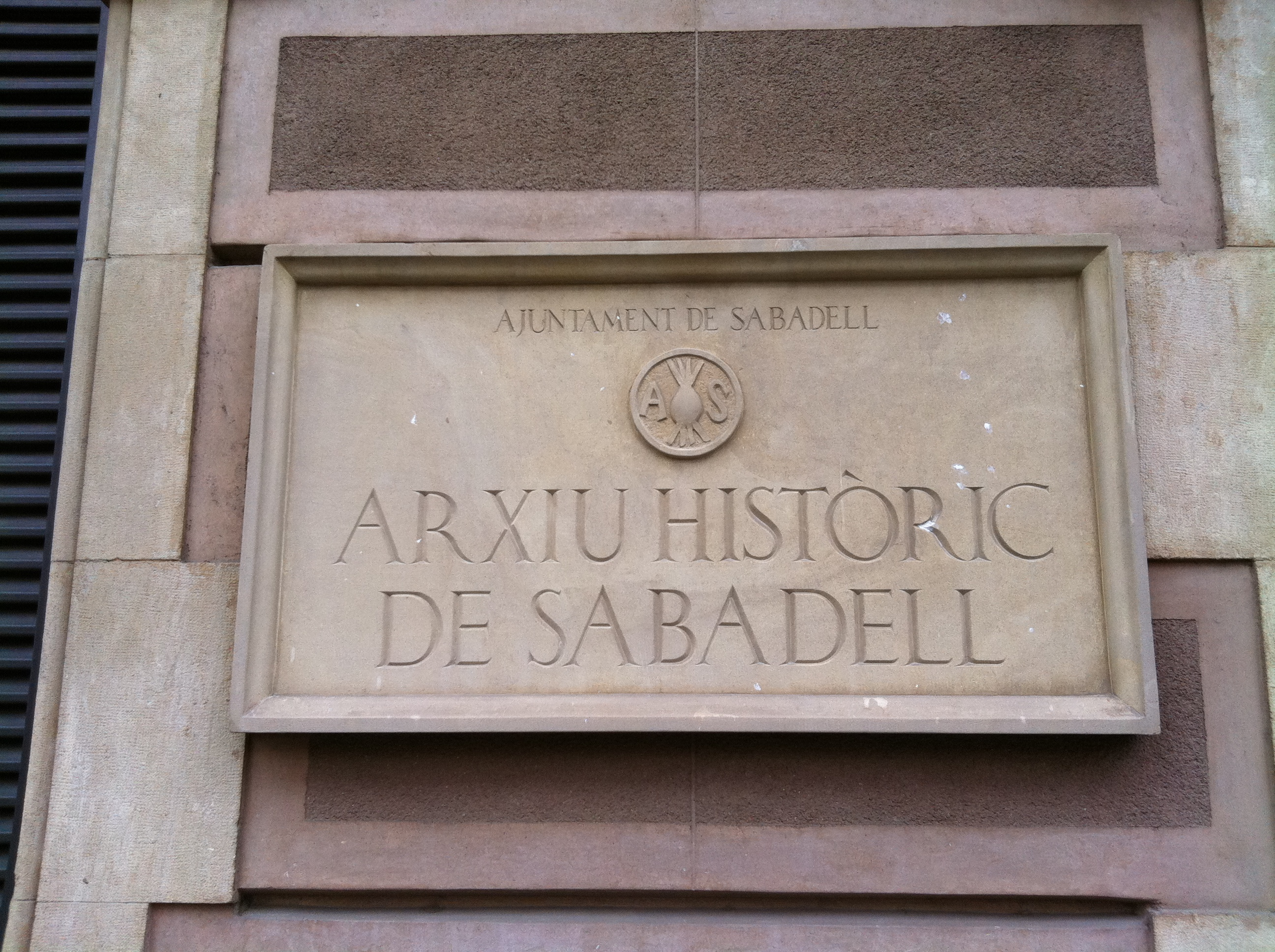 Plaque of the Historical Archive of Sabadell, in Catalonia